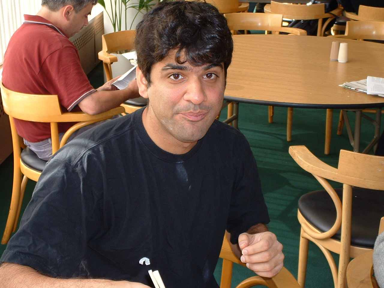 Shiraz Minwalla at Harvard Law School's dining hall